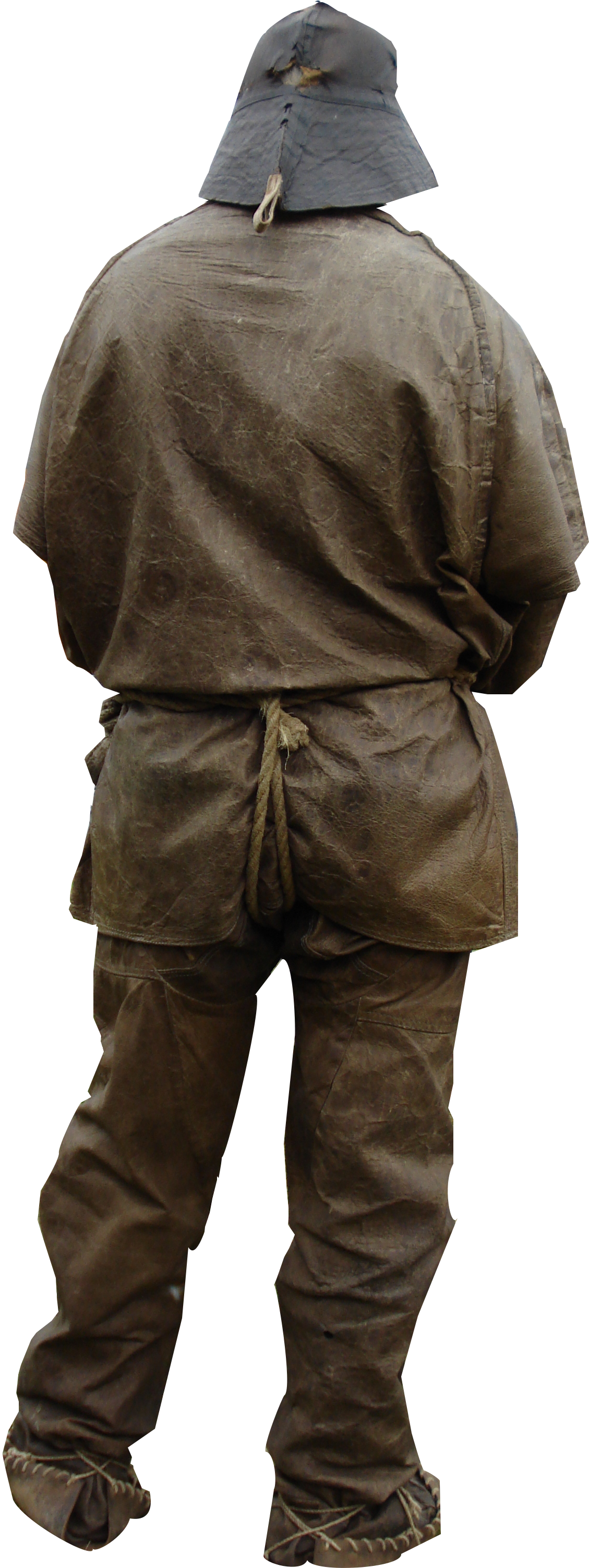 Ancient icelandic fisherman cloth made of sheep skin.